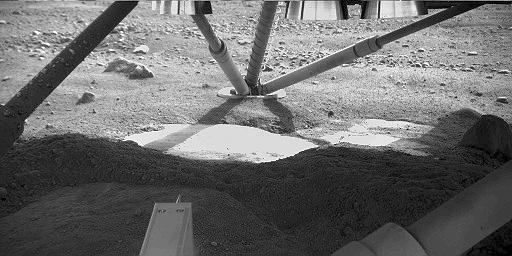 The Robotic Arm Camera on NASA's Phoenix Mars Lander captured this image underneath the lander on the fifth Martian day, or sol, of the mission. Descent thrusters on the bottom of the lander are visible at the top of the image. This view from the north side of the lander toward the southern leg shows smooth surfaces cleared from overlying soil by the rocket exhaust during landing. One exposed edge of the underlying material was seen in Sol 4 images, but the newer image reveals a greater extent of it. The abundance of excavated smooth and level surfaces adds evidence to a hypothesis that the underlying material is an ice table covered by a thin blanket of soil.[1] The bright-looking surface material in the center, where the image is partly overexposed, may not be inherently brighter than the foreground material in shadow. The Phoenix Mission is led by the University of Arizona, Tucson, on behalf of NASA. Project management of the mission is by NASA's Jet Propulsion Laboratory, Pasadena, Calif. Spacecraft development is by Lockheed Martin Space Systems, Denver.